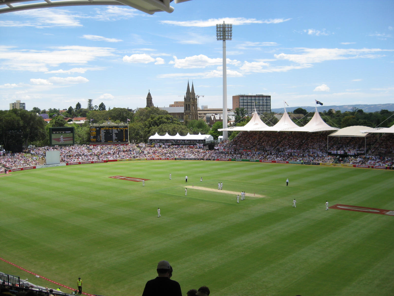 Adelaide Oval looking NE from the new Western Stand, Dec 2010 during the second test of The Ashes